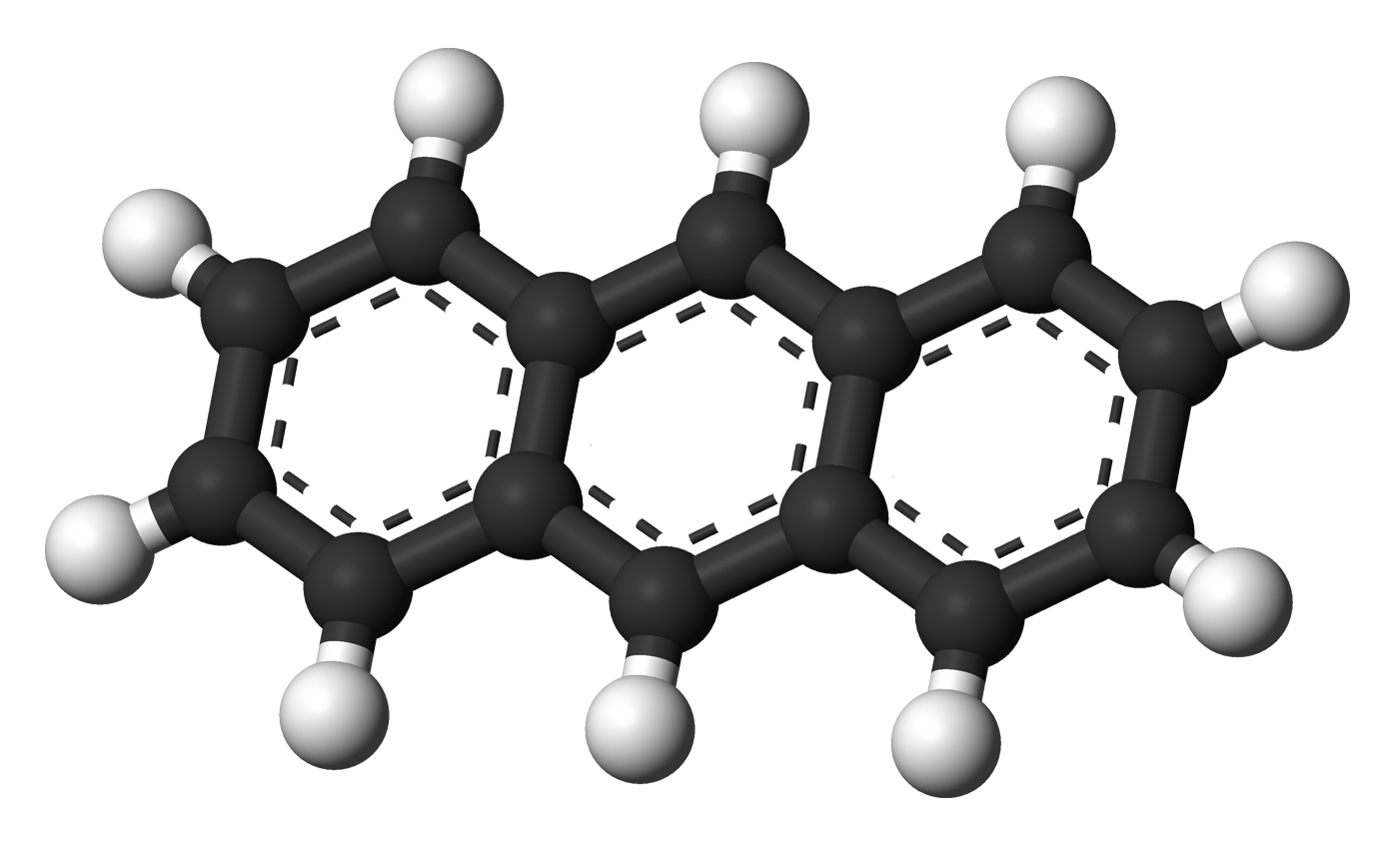 Ball and stick model of the Anthracene molecule.